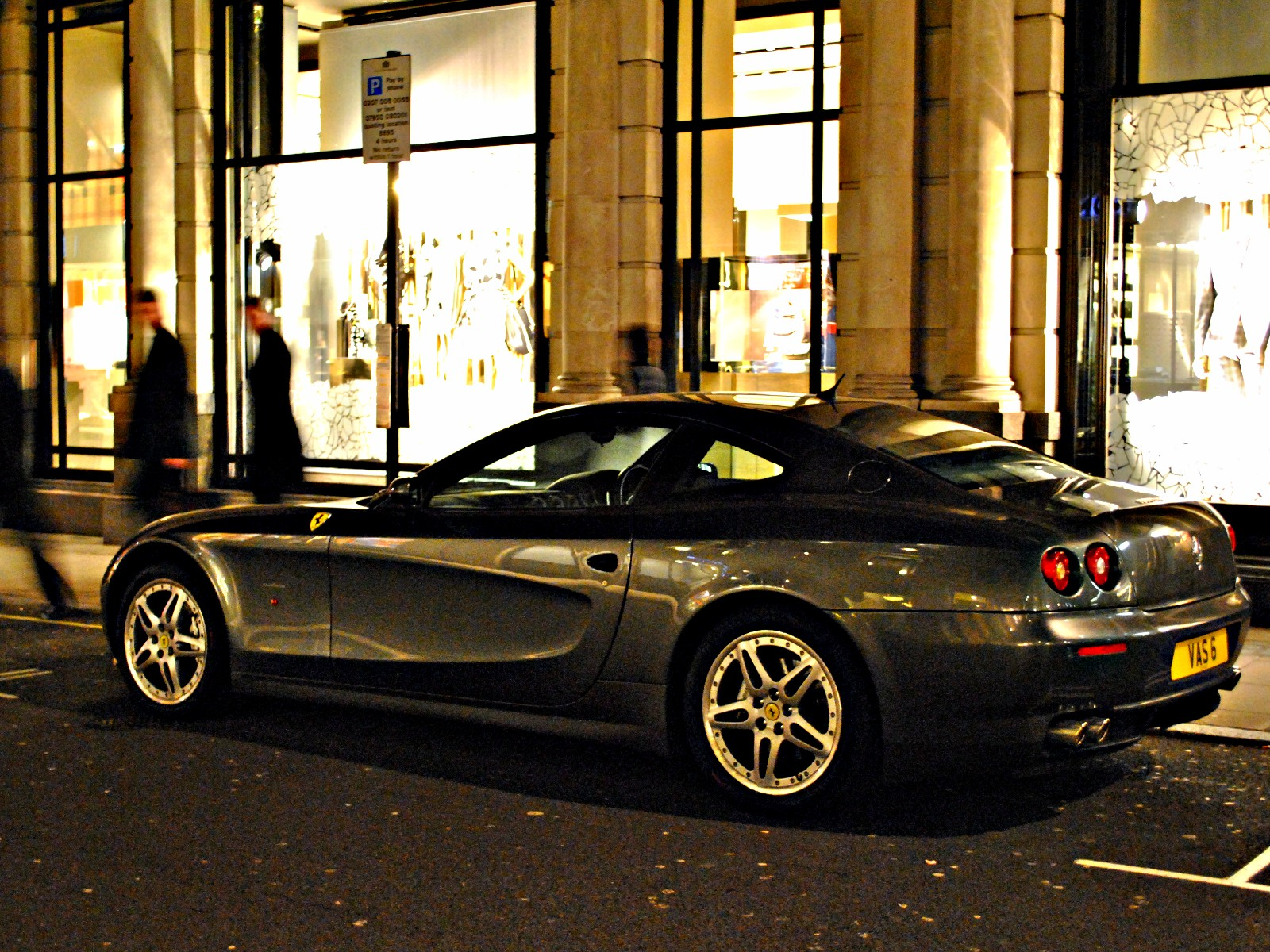 Ferrari 612 Scaglietti, in London